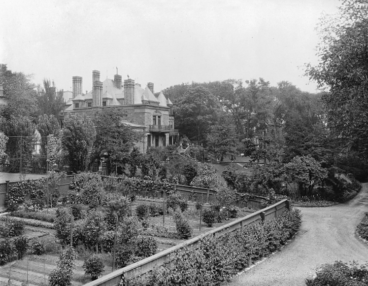 Photograph J. K. L. Ross house, Peel Street, Montreal, QC, 1926-27 Wm. Notman & Son 1926-1927, 20th century Silver salts on paper - Gelatin silver process 20 x 25 cm Purchase from Associated Screen News Ltd. VIEW-24035.1 © McCord Museum